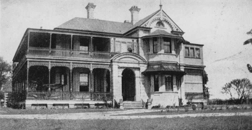 Rakeevan, of Graceville, a front view from the north side, 1931.